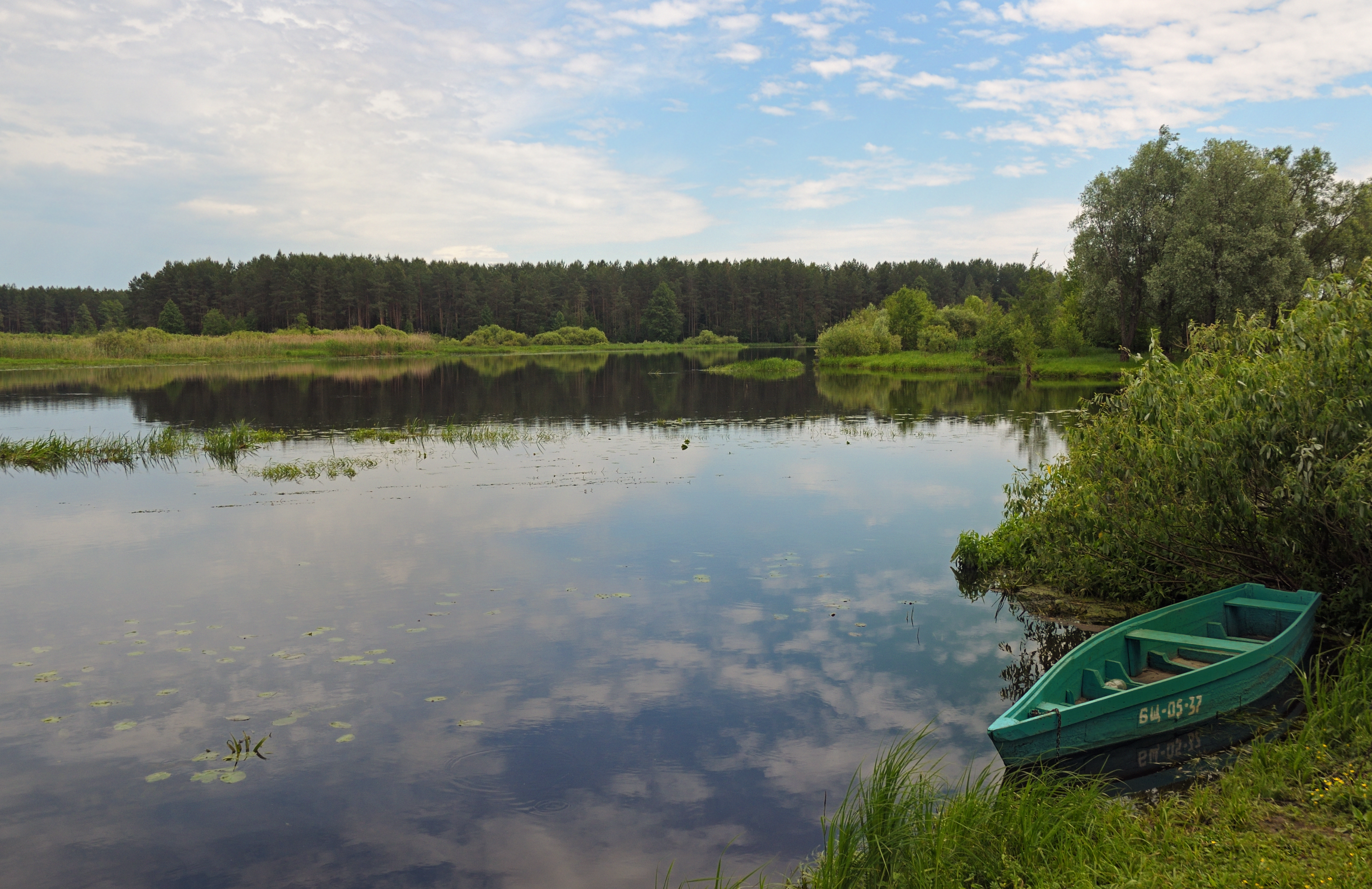 The bank of the river Iput at Dobrush Belarus 2